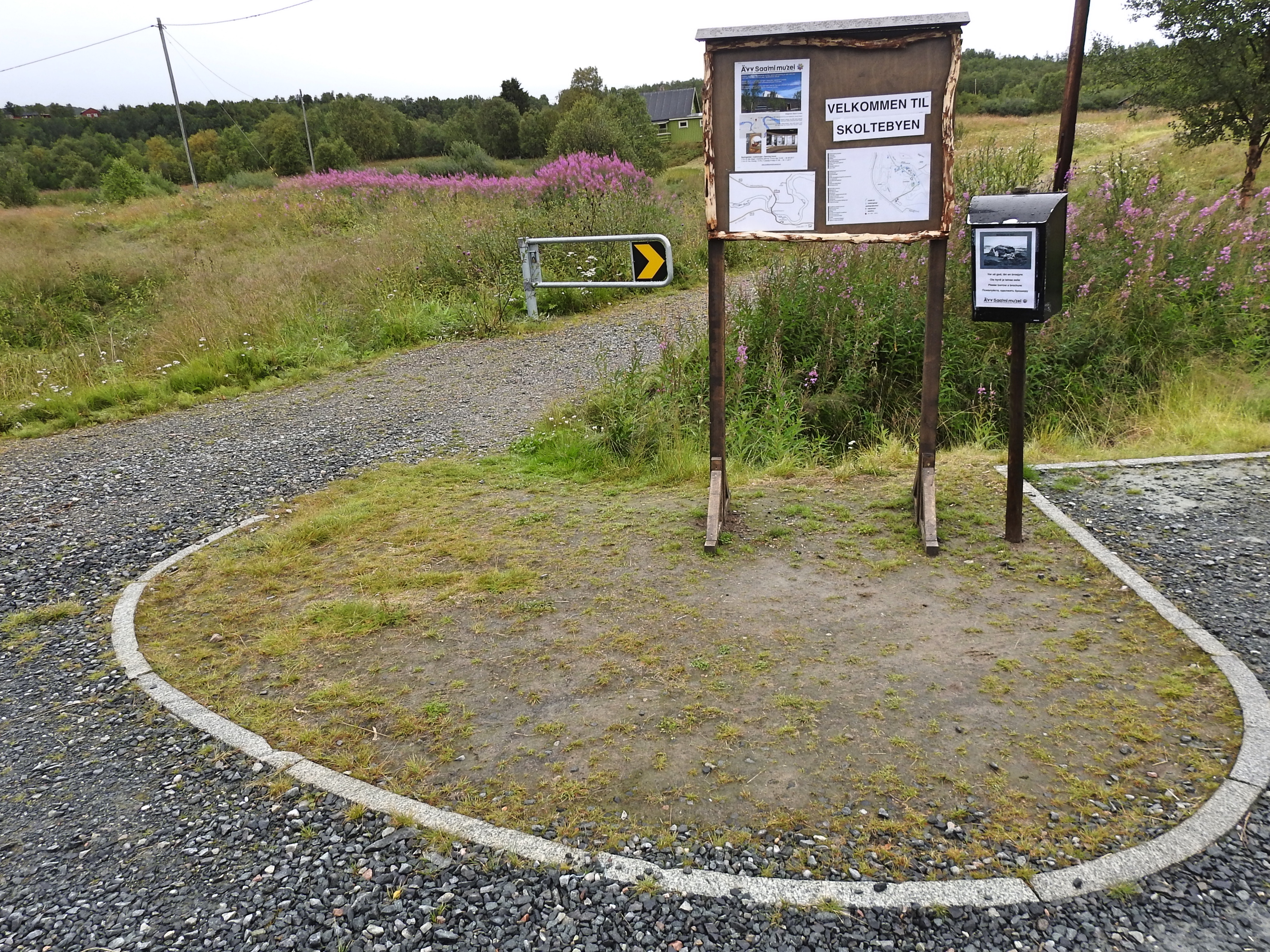 Entrance of protected area of Skoltebyen in Neiden (Municipality of Sør- Varanger/Finnmark/Norway)